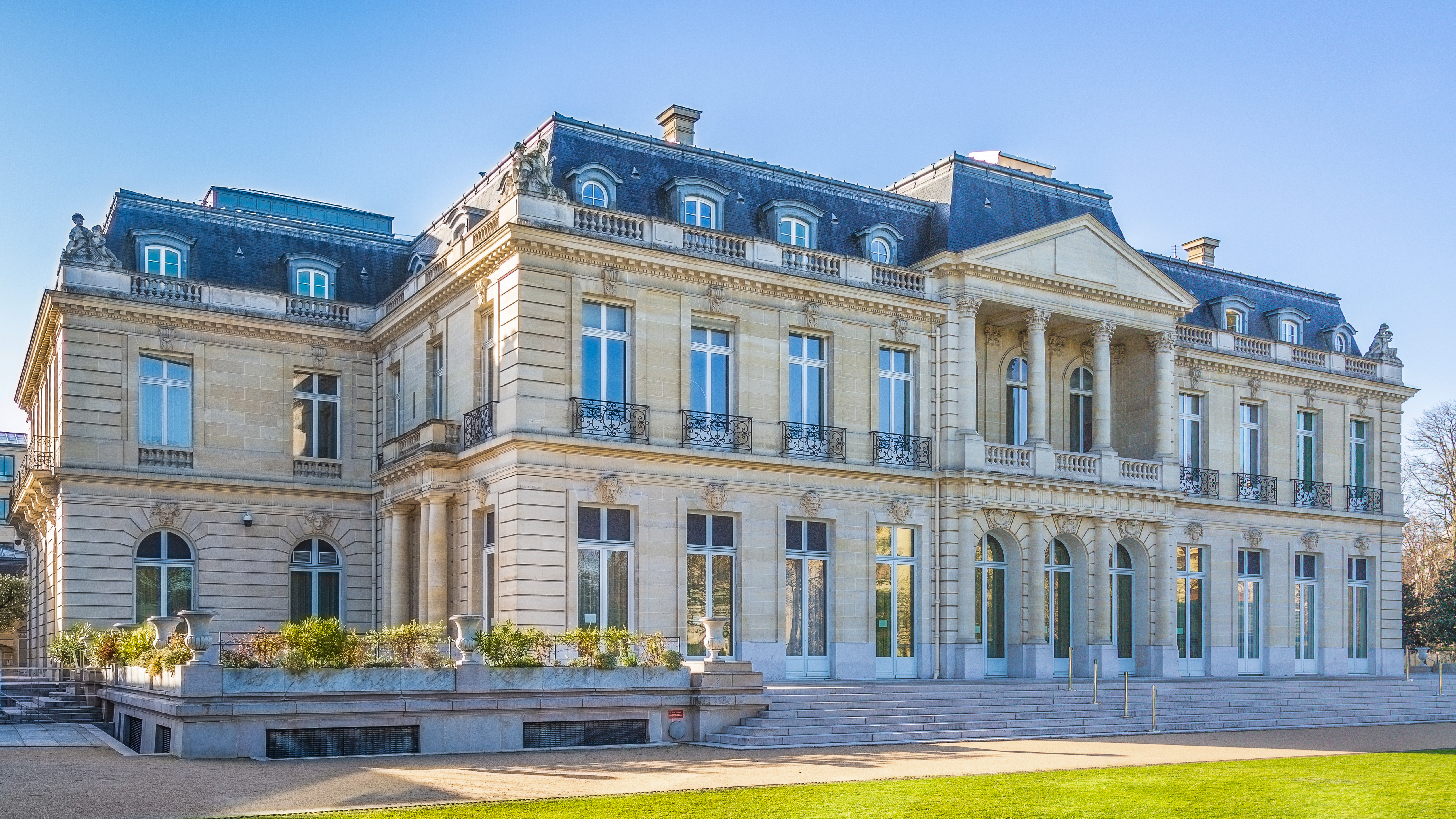 Château de la Muette, view from the park, Paris, France.